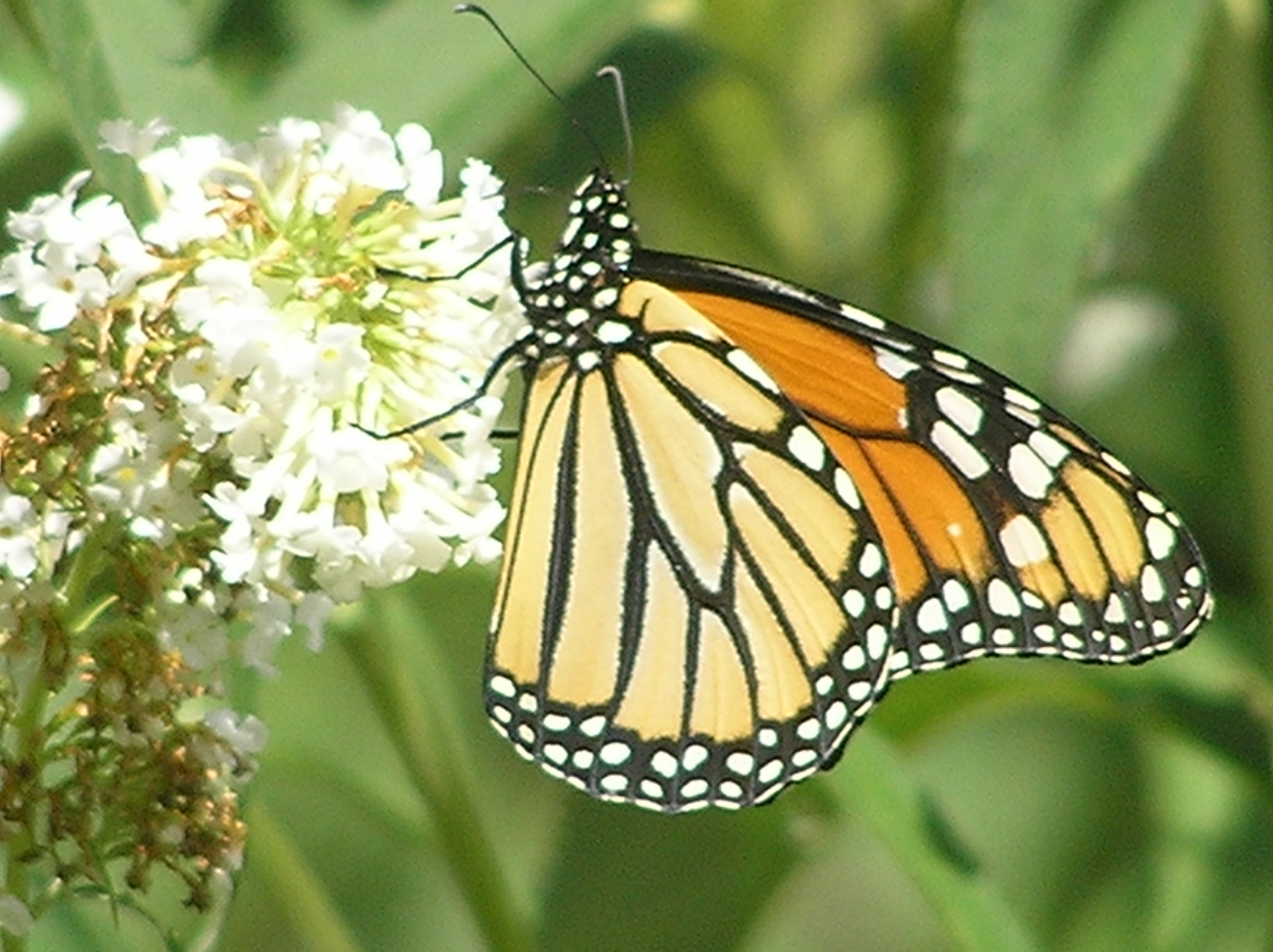 monarch butterfly, Space Mountain, Pennsylvania